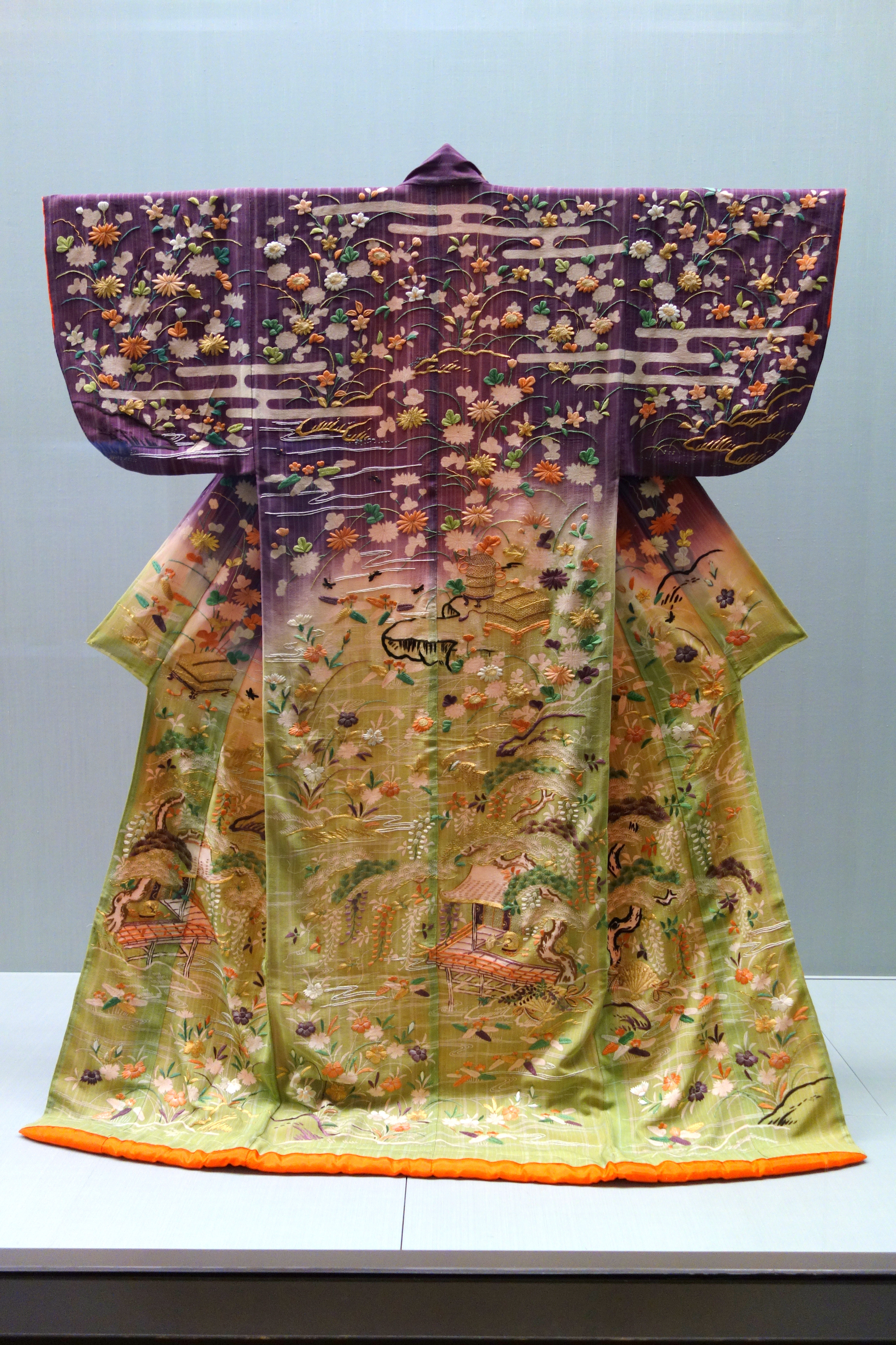 Exhibit in the Tokyo National Museum, Tokyo, Japan. This artwork is old enough so that it is in the public domain.